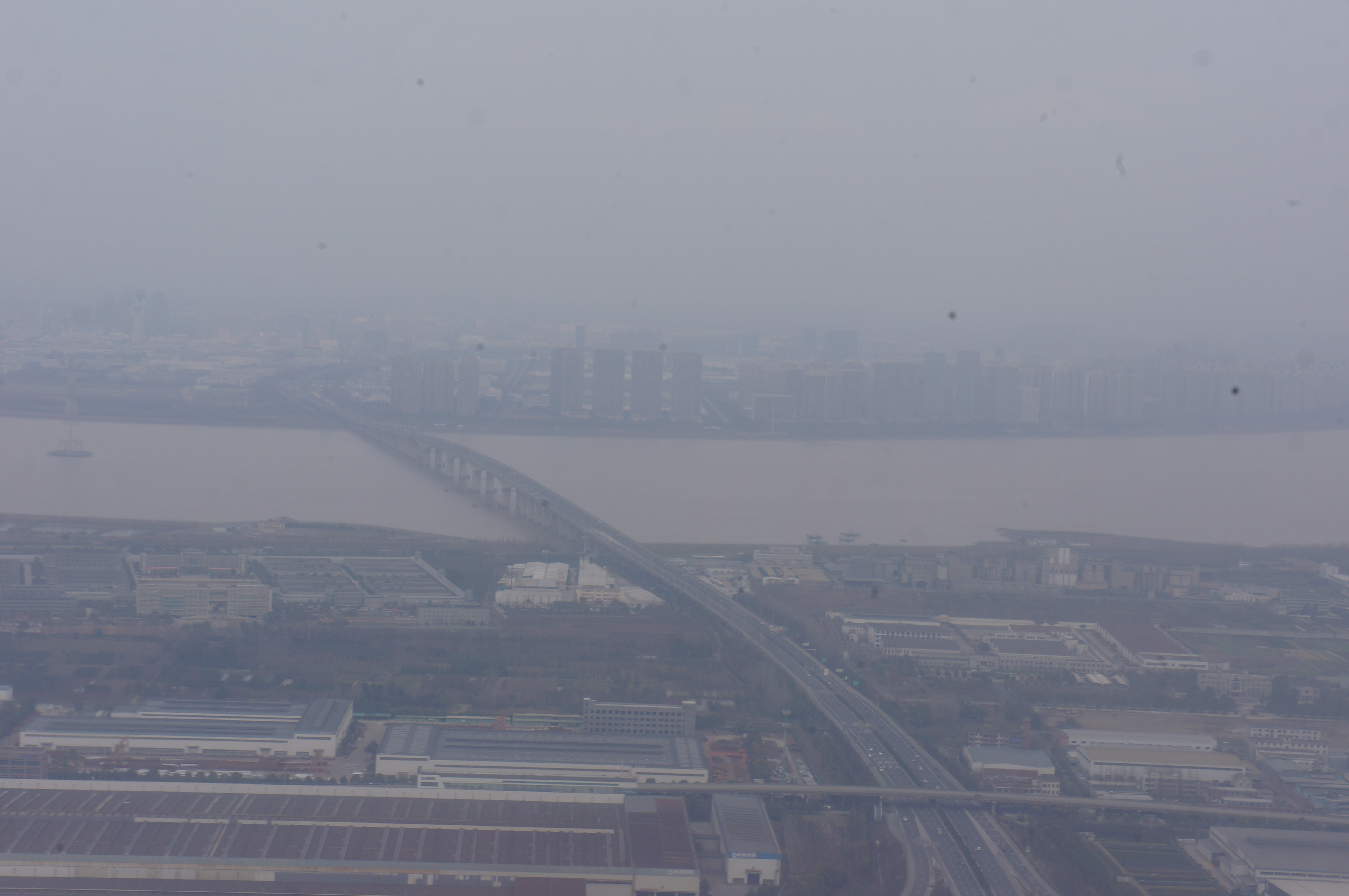 201701 Xiasha Bridge and the Overview of Xiasha. Driving on that expressway to northbound is like a wall suddenly appeared in front.